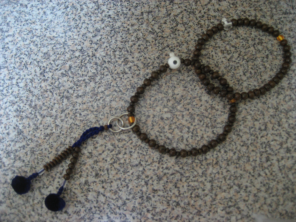 This is an example of the double-ring onenju (Buddhist prayer beads) used in the Jodo Shu school in Japan. One right counts a single recitation of the nenbutsu, while the other ring counts a single revolution of the first ring. Additional beads hang from the strings for further units of counting.